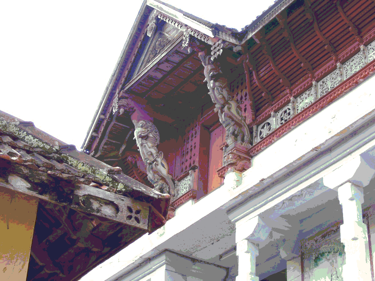 AdiKesava Perumal Temple Tower.